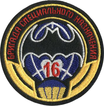 16th Spetsnaz Brigade (Russia)